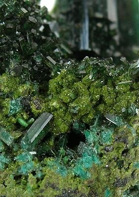 Gartrellite, Olivenite Locality: Tsumeb Mine (Tsumcorp Mine), Tsumeb, Otjikoto (Oshikoto) Region, Namibia (Locality at ) Size: 2.9 x 1.9 x 1.9 cm. Found in December of 1974, this is a FINE olivenite on its own merit. The piece features a nearly gemmy crystal with great lustre, measuring almost 1 cm tall, and perched beautifully! However, the greater rarity lies in those sparkling sub-mm microcrystals at the base of the olivenite cluster. This is an extremely rich occurrence of GARTRELLITE, which is the much rarer species by far. This has been confirmed by SEM and EDS, by the way; though the association is also indicative of gartrellite at Tsumeb. Ex. Ulrich Baumann Collection.